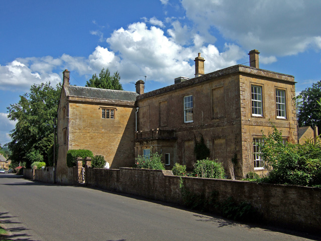 Manor House - Norton-Sub-Hamdon Grade II listed, 17th century, with early 18th century additions.